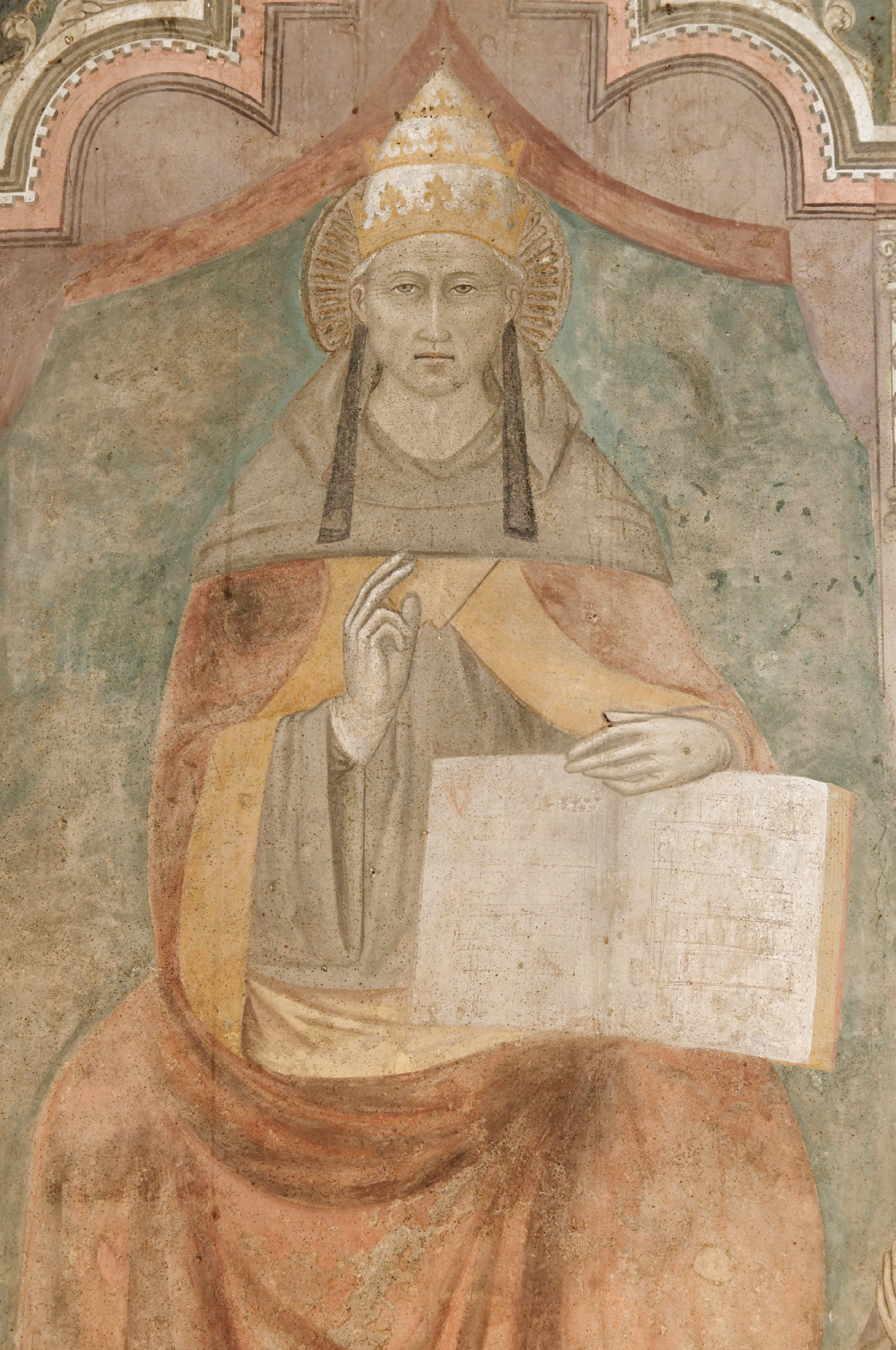 Main panel of a triptych with St Peter Celestine (pope Celestine V) and monks.